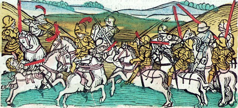 The Battle of Posada (November 9-12, 1330) in the Chronica Hungarorum. The Basarab I of Wallachia's army ambushed Charles Robert of Anjou, king of Hungary and his 30,000-strong invading army. The Vlach (Romanian) warriors rolled down rocks over the cliff edges in a place where the Hungarian mounted knights could not escape from them nor climb the heights to dislodge the attackers.